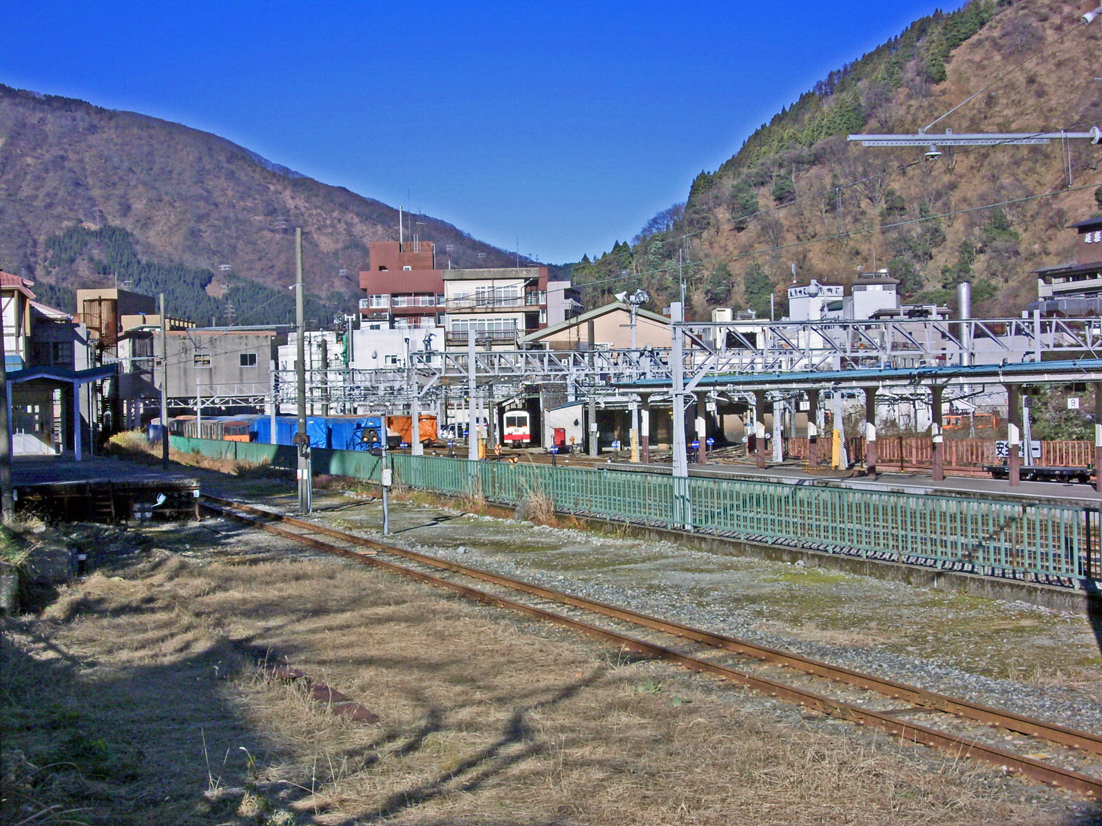 Unaduki Hot-Spa Station & Unaduki station